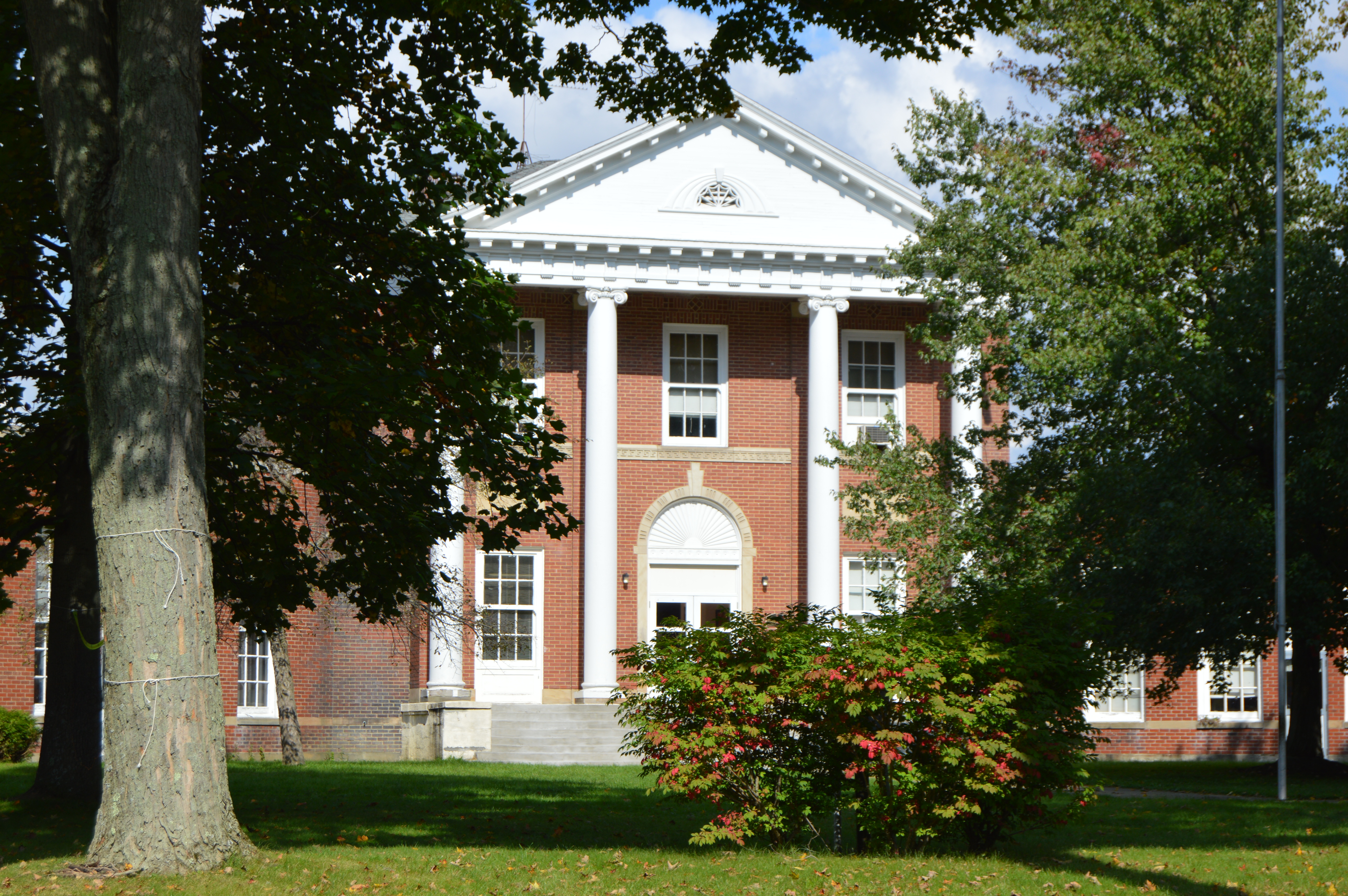 Front of the Rock Creek School, located at 2987 High Street in Rock Creek, Ohio, United States. Built in 1869, it is listed on the National Register of Historic Places.